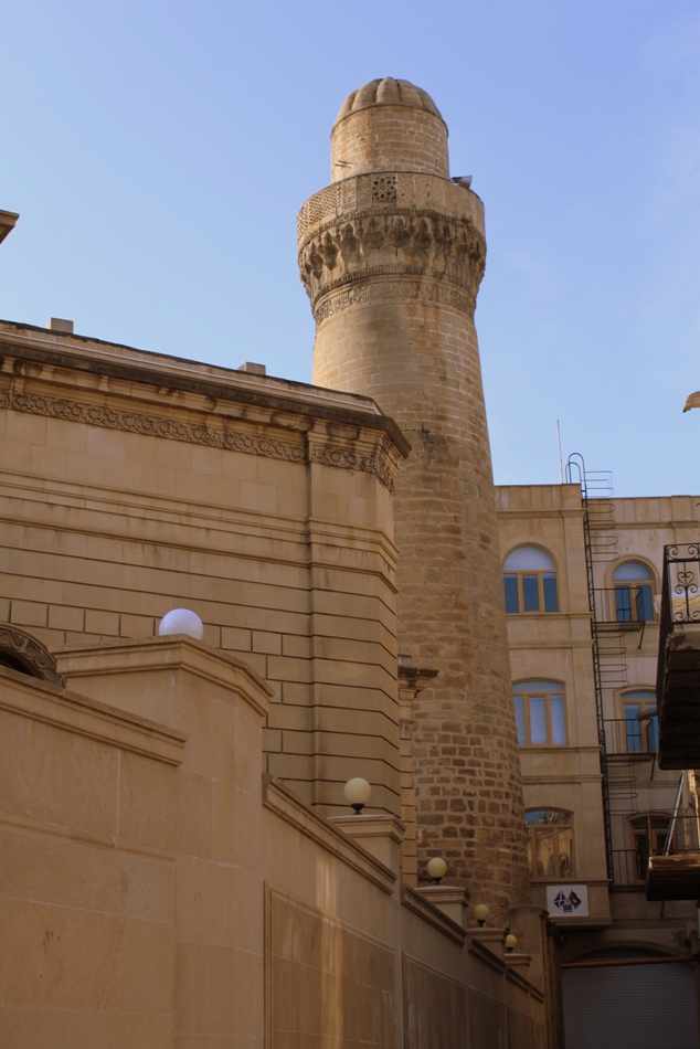 Cuma mosque in Baku